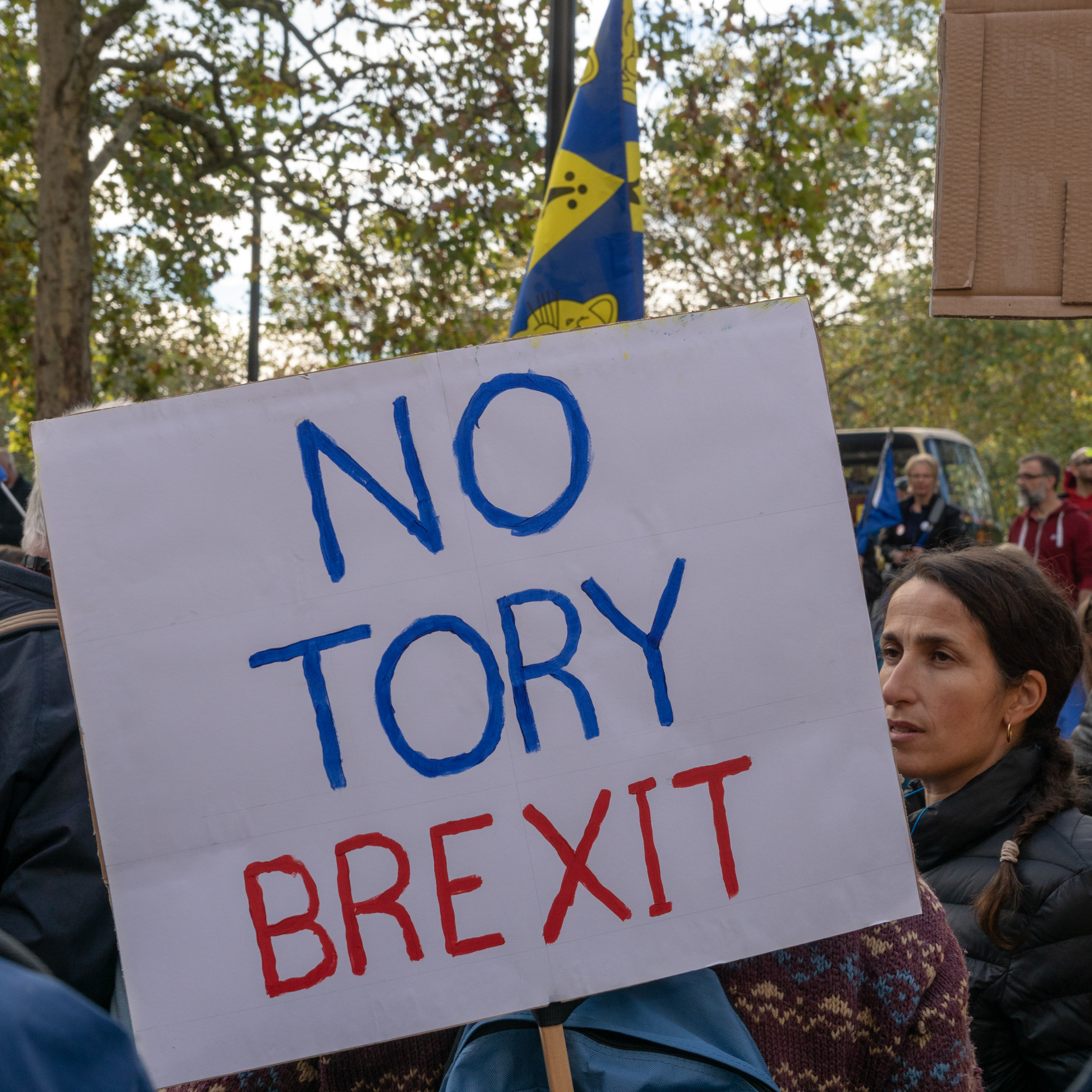 People's Vote March 20 October, 2018.